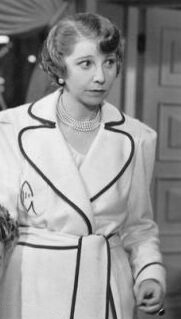 Left to right: Danielle Darrieux, Helen Broderick, and Mischa Auer in The Rage of Paris (1938) - cropped screenshot